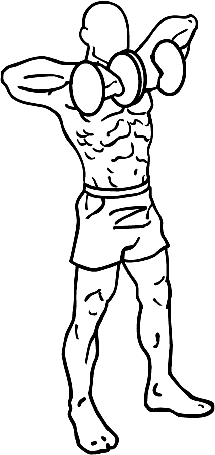 an exercise of shoulders